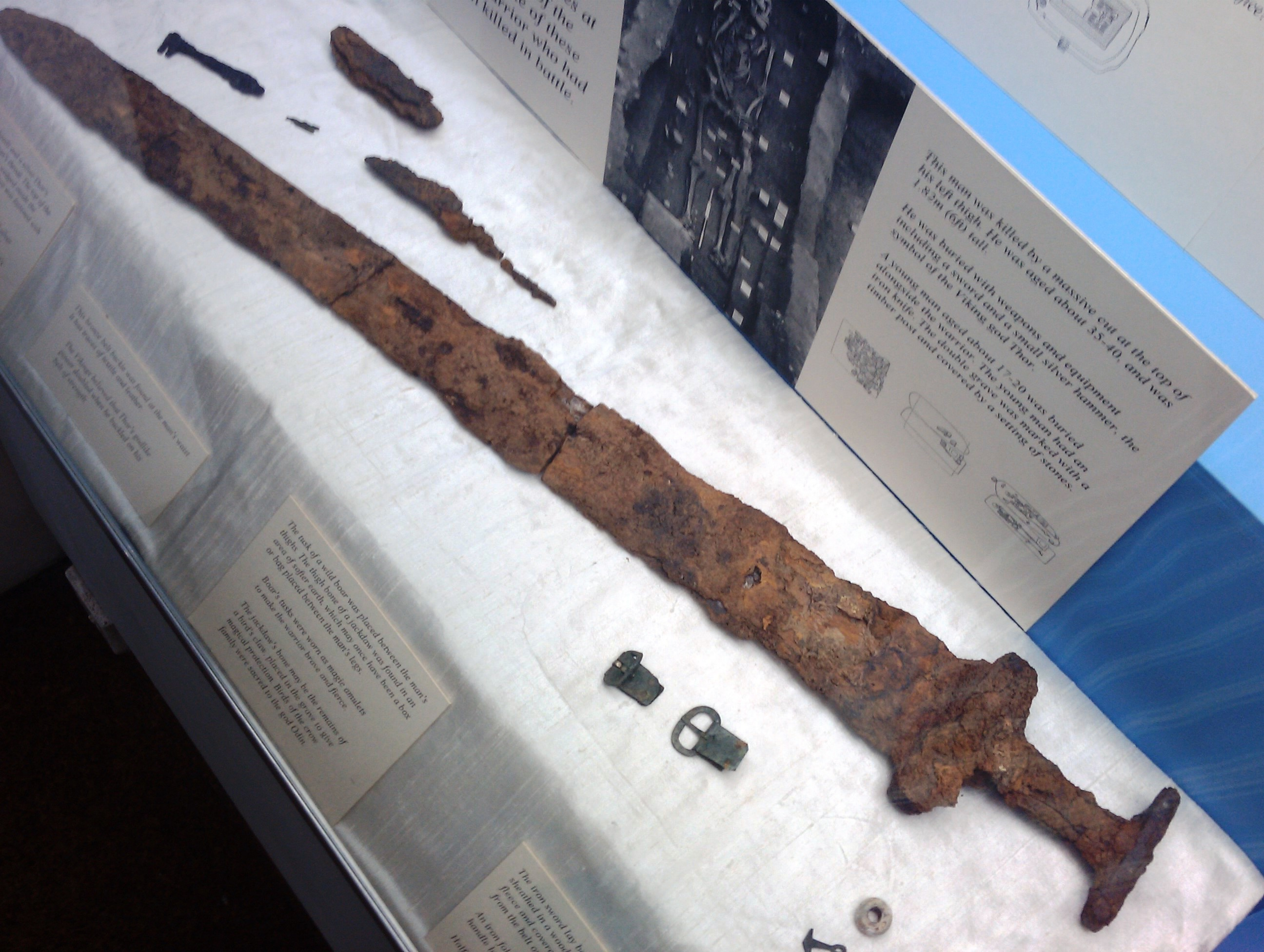 Derby Museum Viking Sword found in Repton